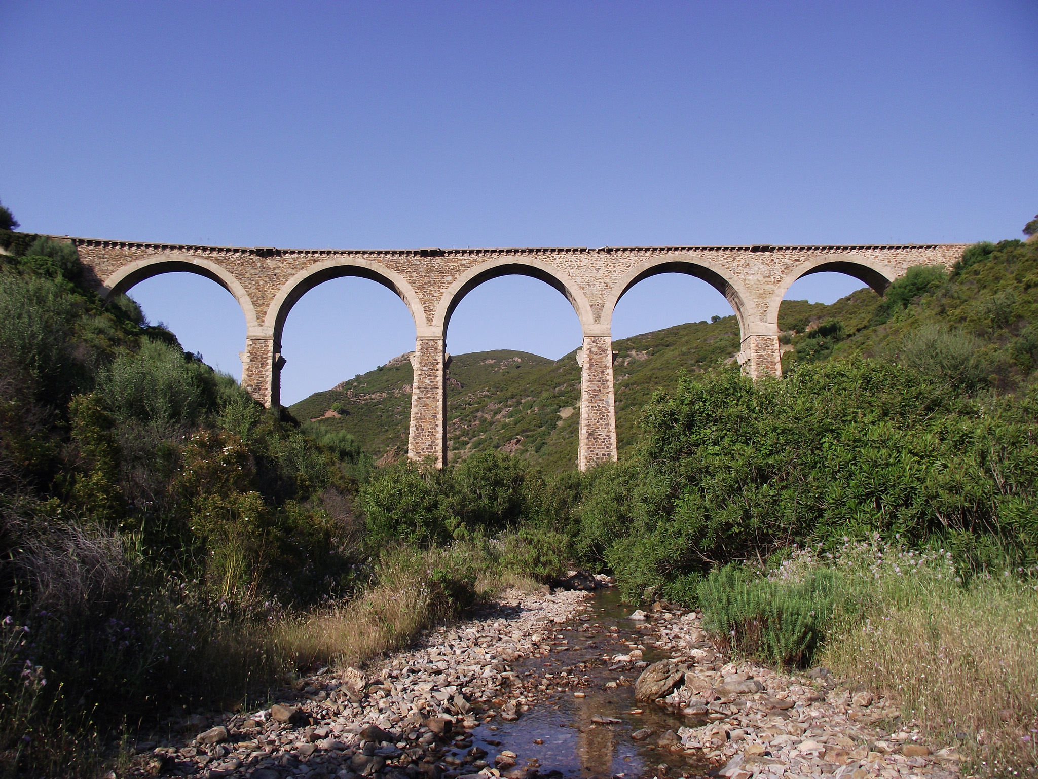 The rail viaduct above the Rio Fundus, along the former railway Siliqua-San Giovanni Suergiu-Calasetta, in Sardinia, Italy